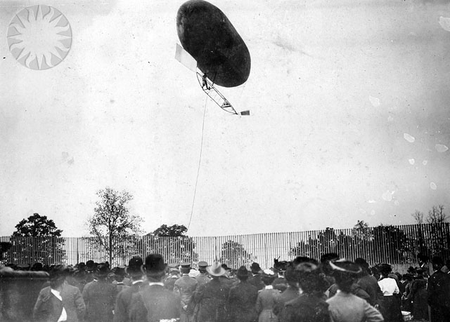 The 1904 Thomas Baldwin's "California Arrow" airship.